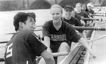 John F. Kennedy School of Government 1996 women's team outside the Weld Boathouse preparing to row the Head of the Charles. The Anderson Bridge is in the background.